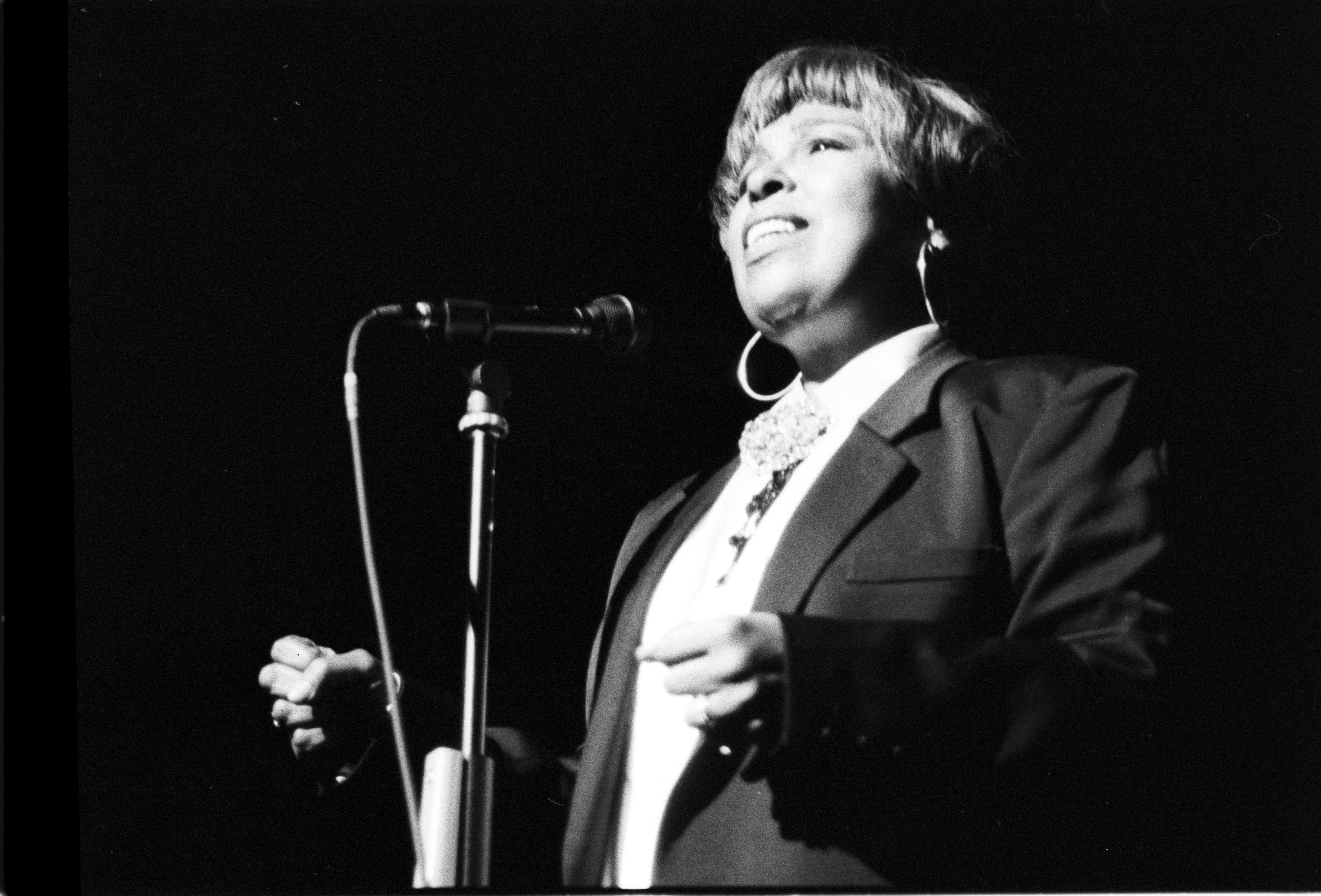 American blues and soul singer Roberta Flack in concert in Deauville (Normandy, France) in July 1992.